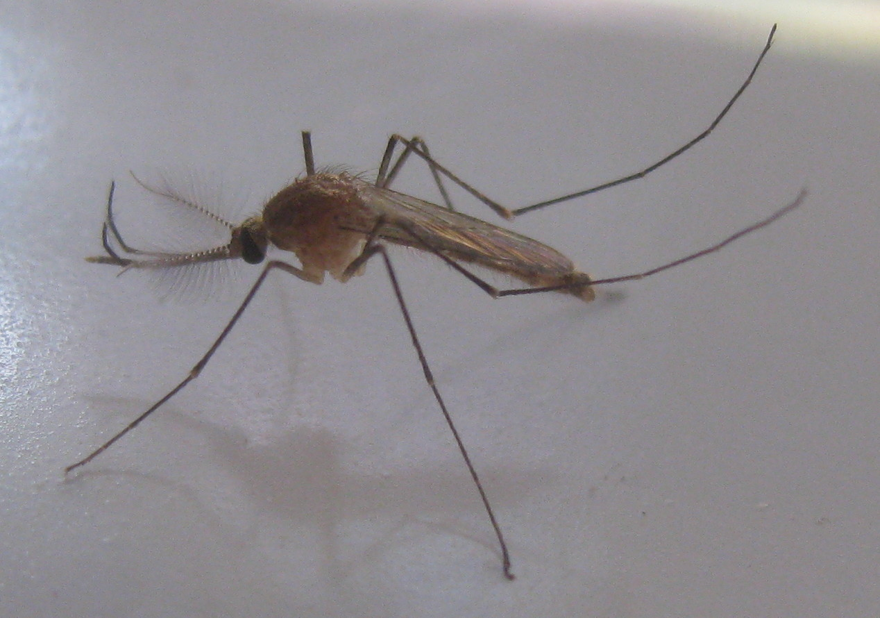 A house mosquito (Culex species, Family Culicidae, Diptera), a vector for filariasis (elephantiasis) but not of malaria. This one was resting on the door of my fridge. Chimoio, Mozambique.